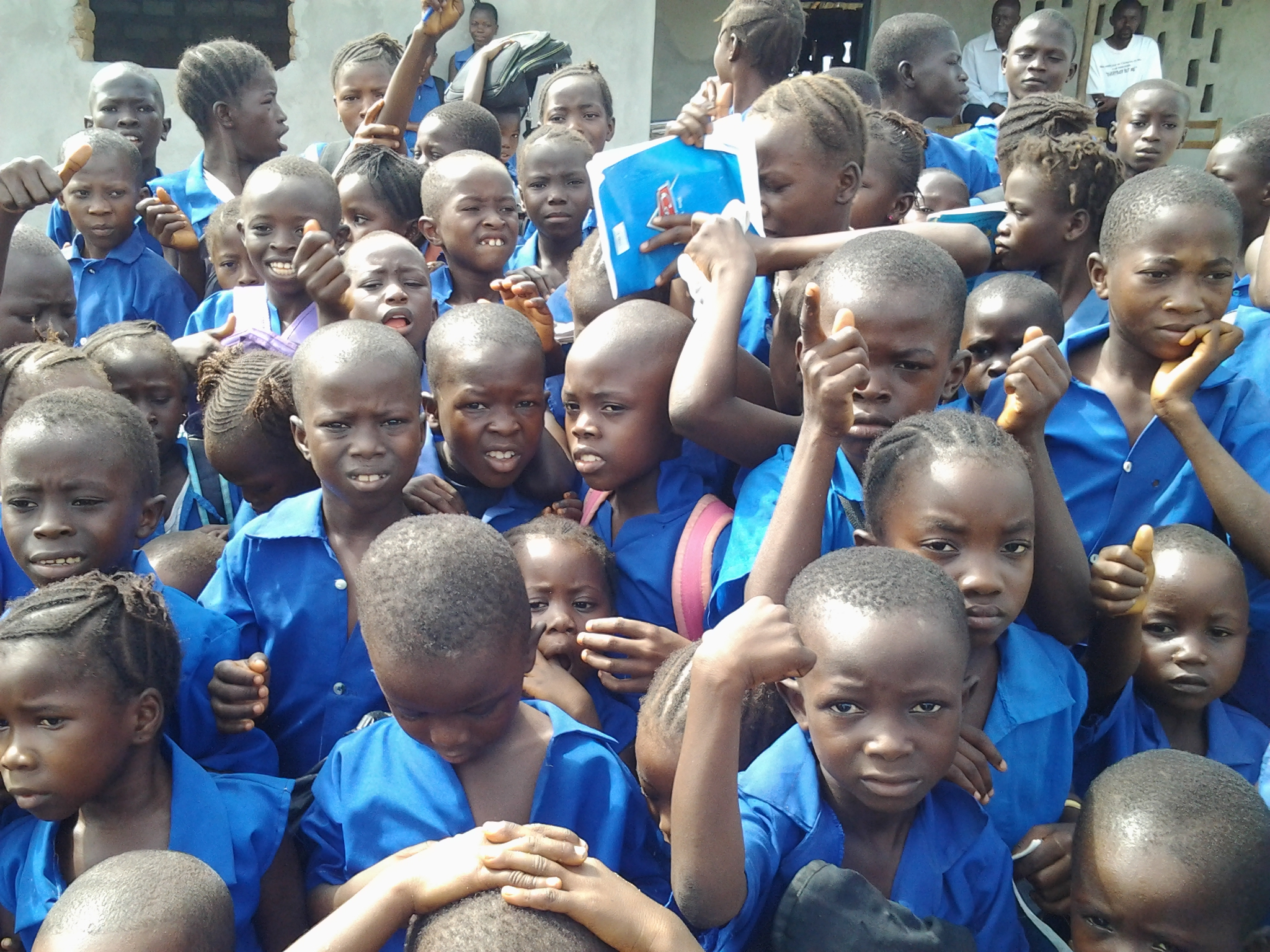 village school, the first week they ever wear uniform This is an image of "African people at work" from Sierra Leone